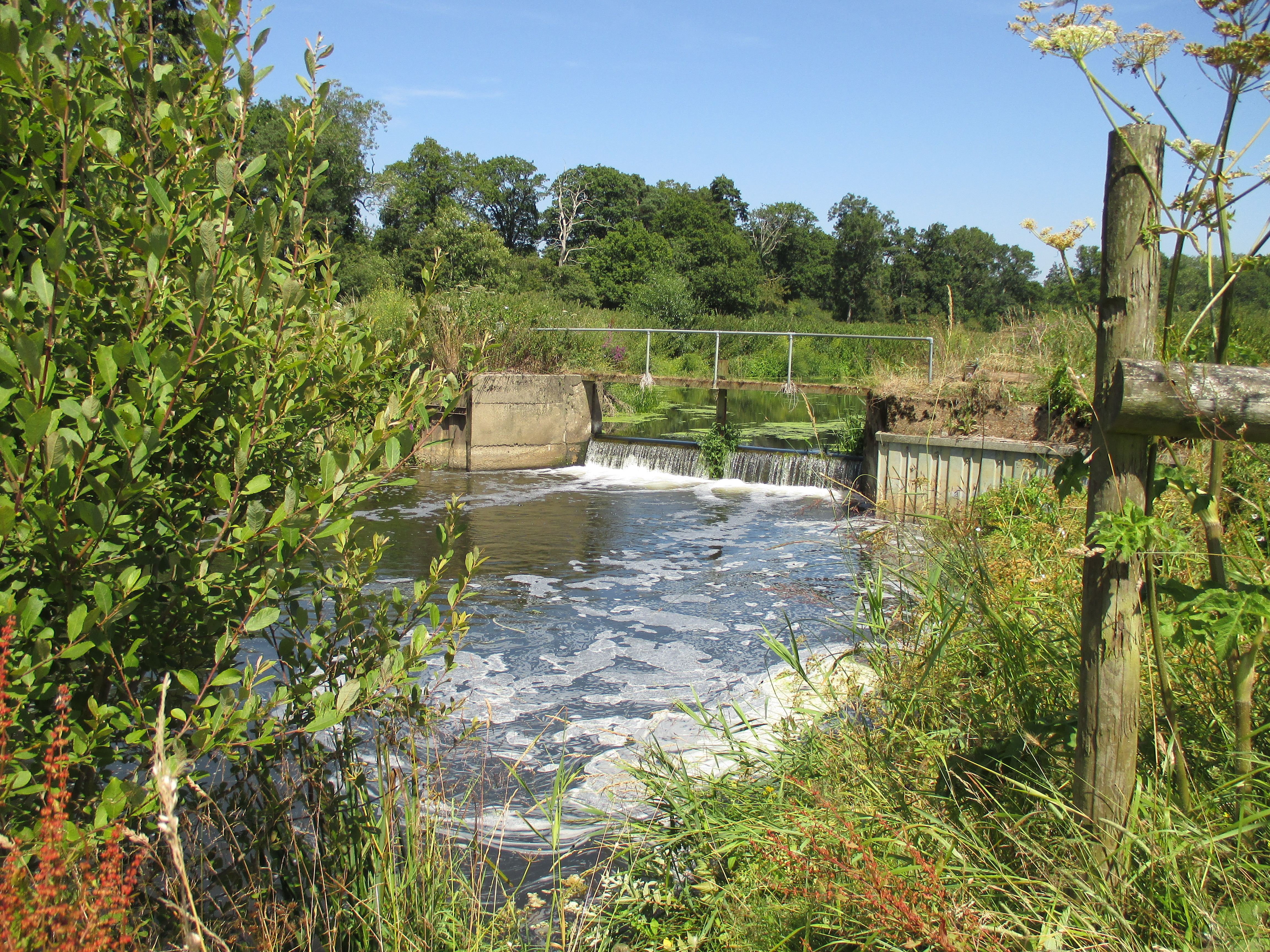 Weir on the River Adur, ½ mile north-east of Shermanbury church, West Sussex.